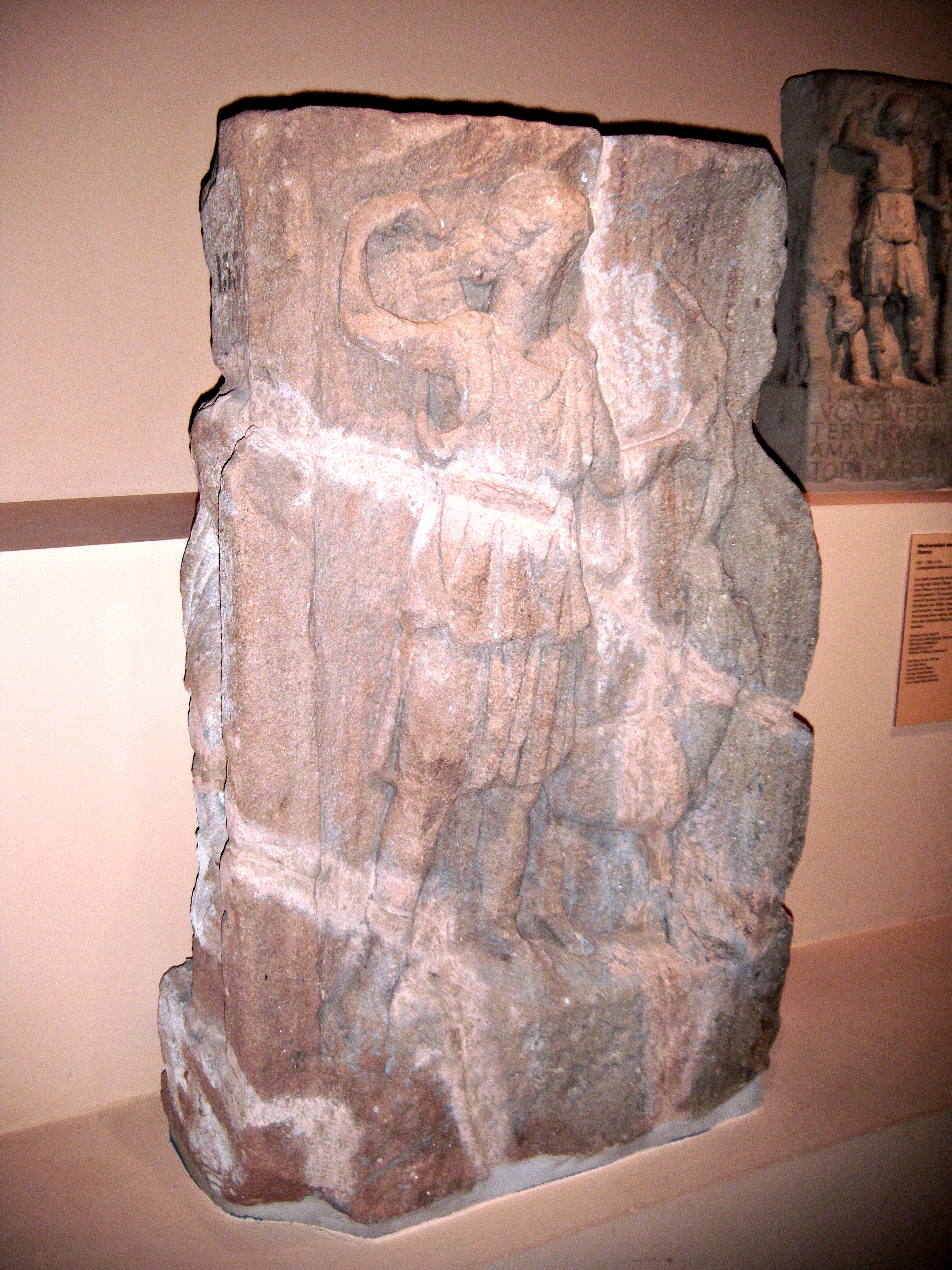 Dianarelief aus Kerzenheim (um 200), heute Historisches Museum der Pfalz, Speyer